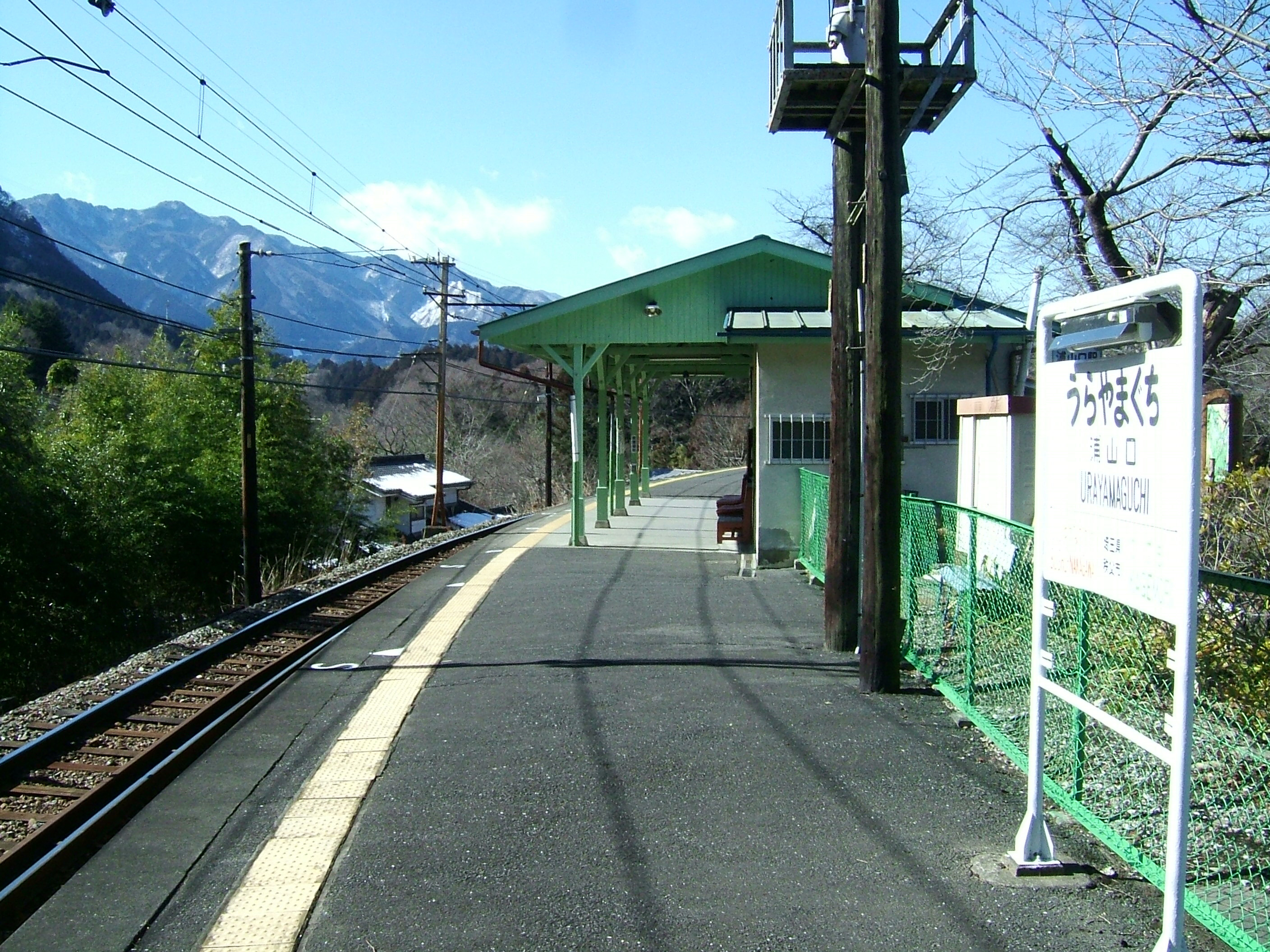 The platform at Urayamaguchi Station on the Chichibu Railway in Saitama Prefecture, Japan